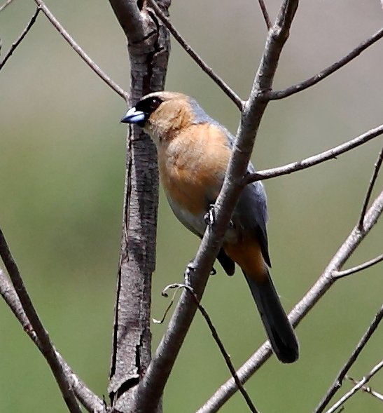 Cinnamon Tanager (male) at Parque Nacional de Serra da Canastra - MG - Brazil